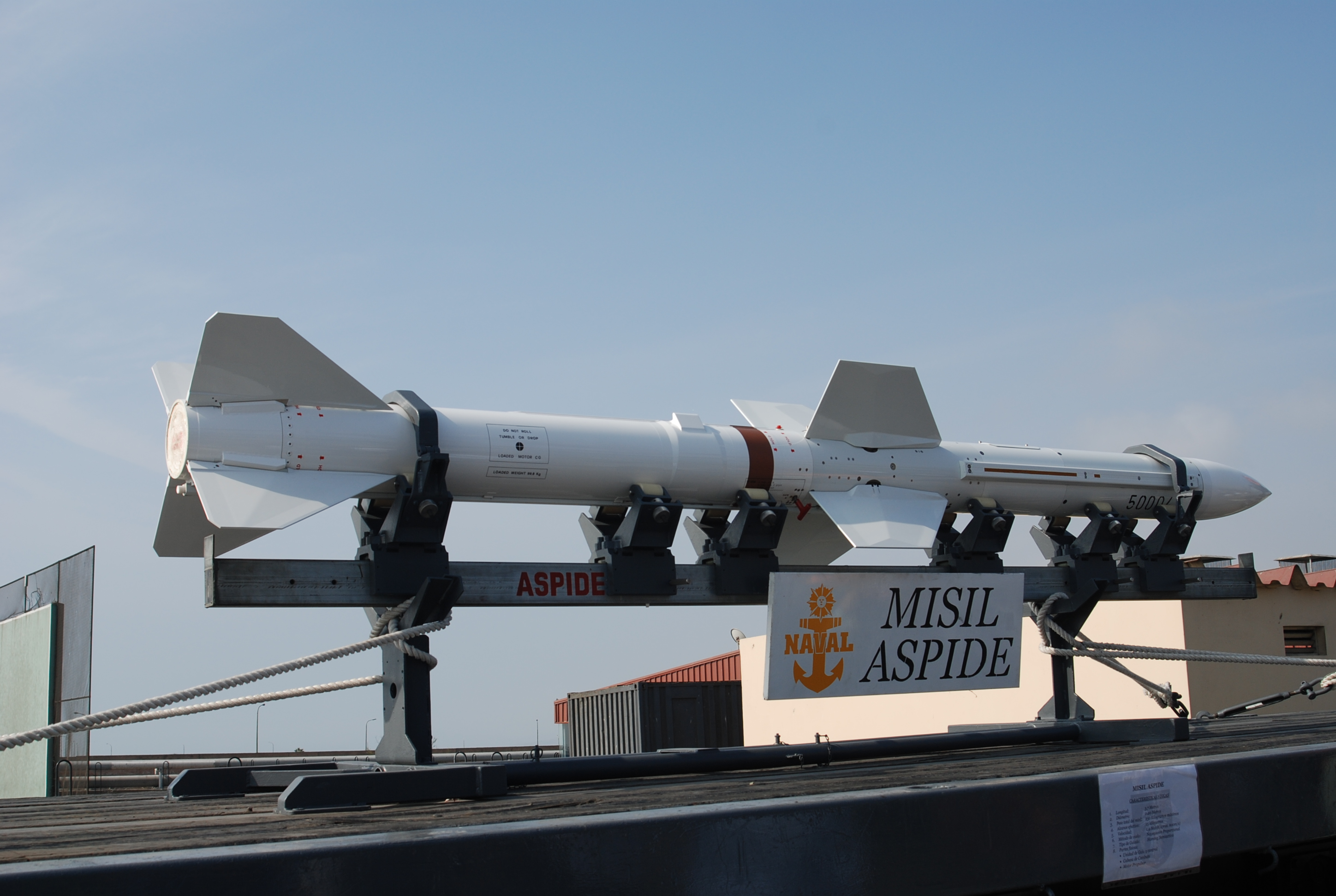 Aspide missile of Peruvian Navy